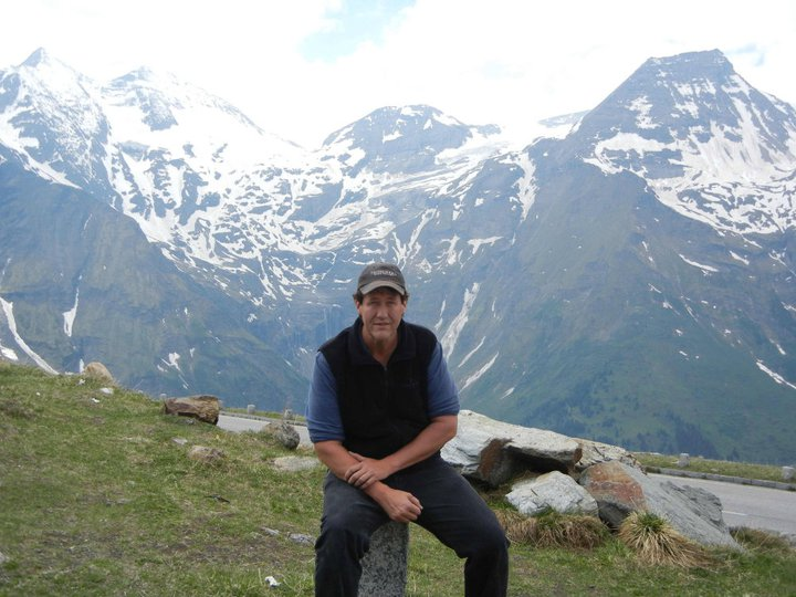 Author Mark Allen Baker in Austria